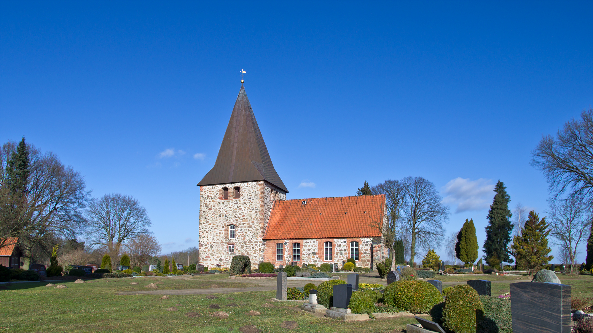 Church of Woltersdorf (district Lüchow-Dannenberg, northern Germany).